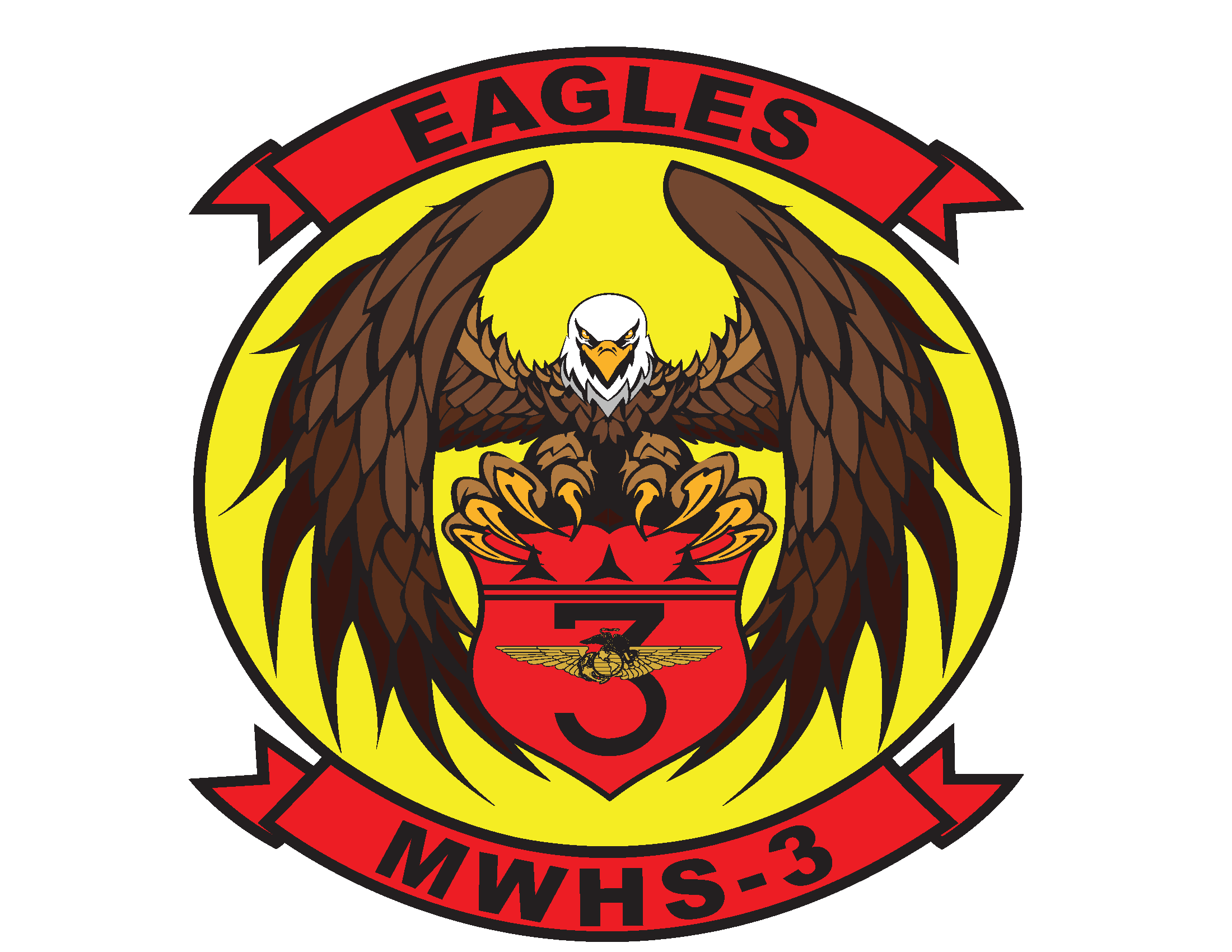 Logo for Marine Wing Headquarters Squadron 3 (MWHS-3) The Eagles